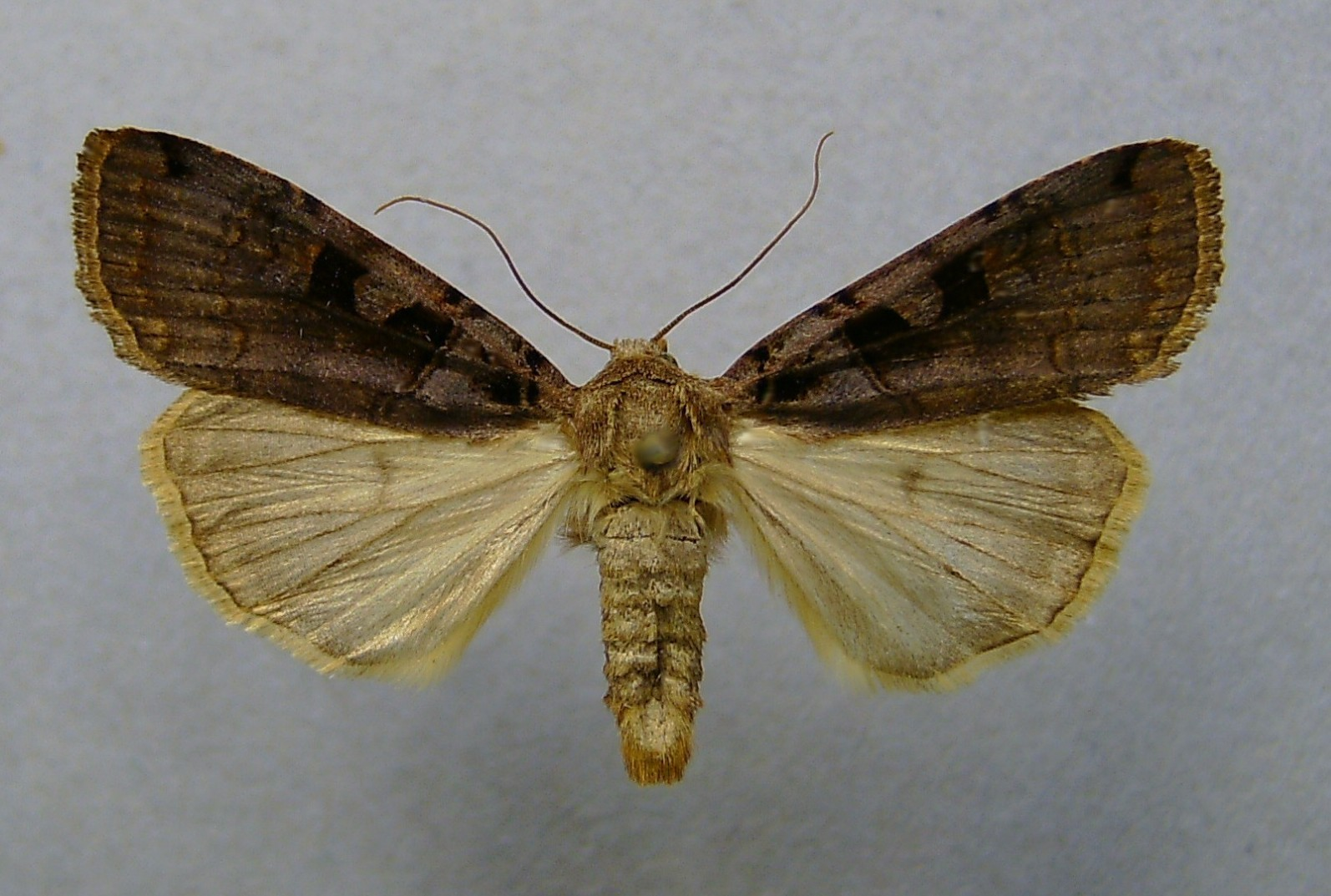 Xestia ditrapezium, Kelheim, Germany